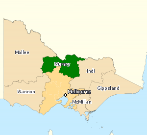 Incorporates or developed using Administrative Boundaries ©PSMA Australia Limited licensed by the Commonwealth of Australia under Creative Commons Attribution 4.0 International licence (CC BY 4.0). Derived from State and Territory Boundaries from the Australian Bureau of Statistics under Creative Commons Attribution 2.5 Australia license (CC BY 2.5 AU)